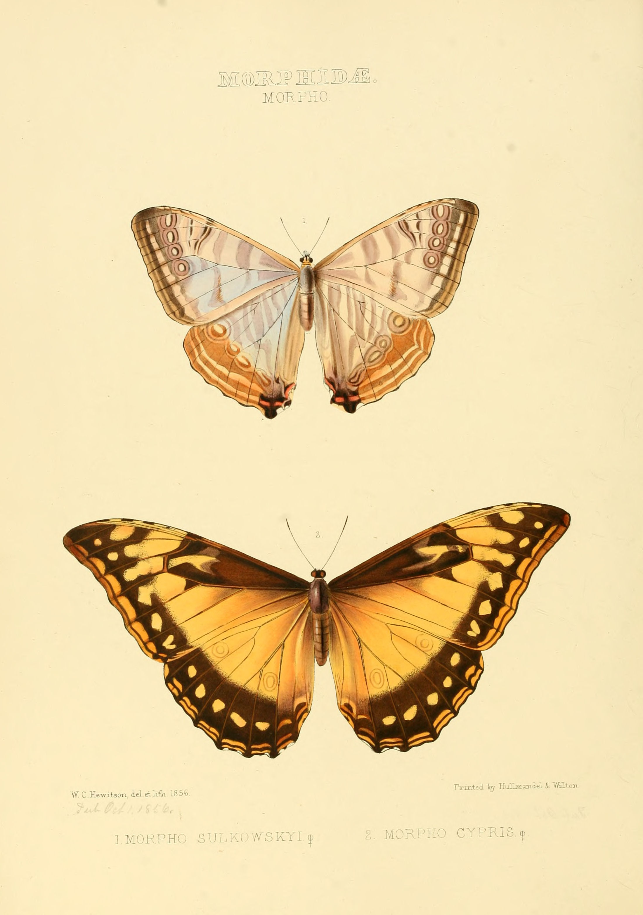 Plate: Morpho Morpho sulkowskyi. Fig. 1 (female). Accepted as Morpho sulkowskyi Kollar, 1850. Morpho cypris. Fig. 2 (female). Accepted as Morpho cypris Westwood, 1851.